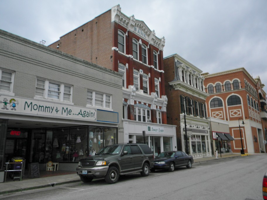 Downtown Washington Historic District